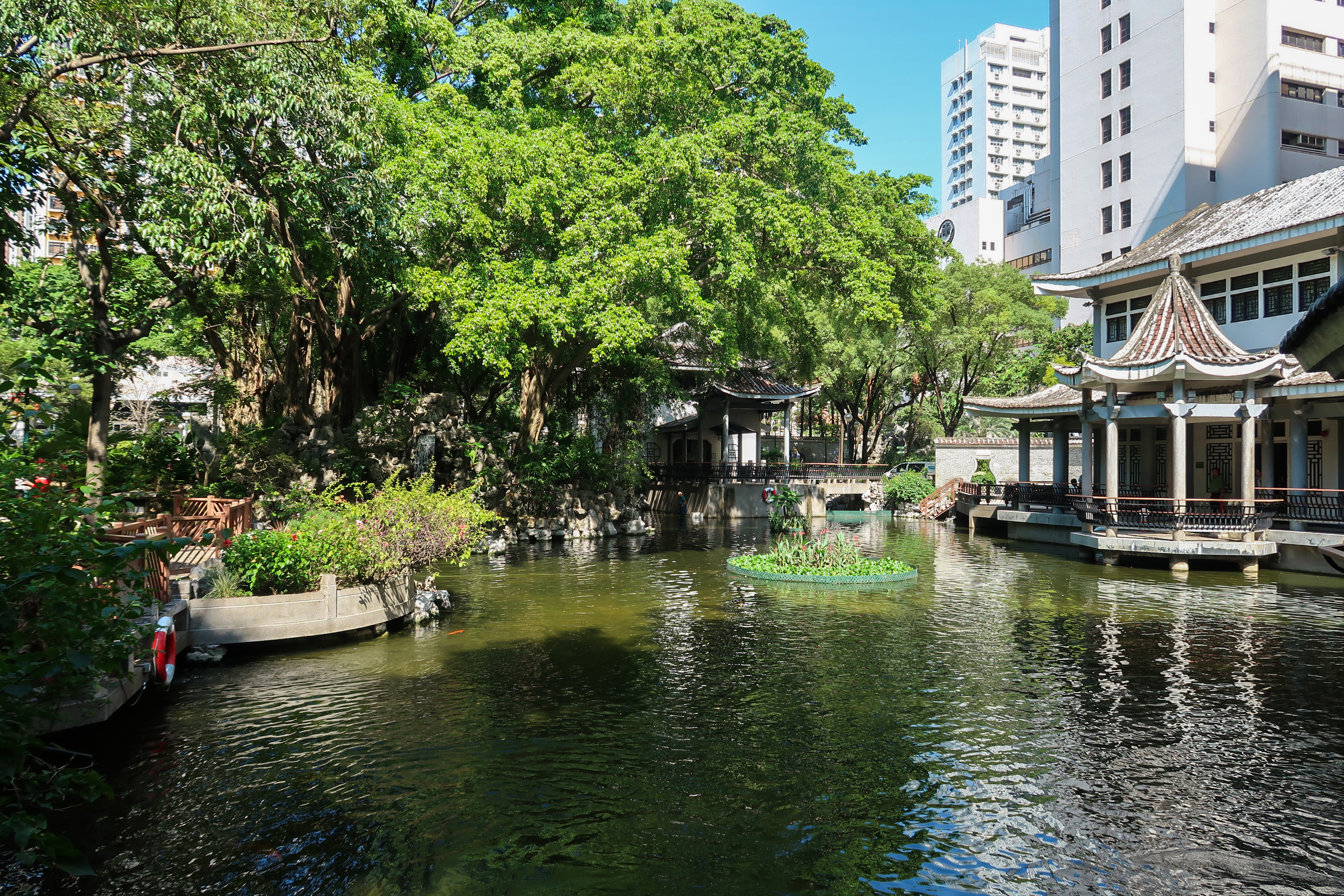 Jockey Club Tak Wah Park Pond